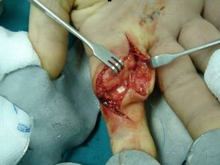 Lipoma arises from the subcutaneous tissues of proximal phalanx of the right first digit.